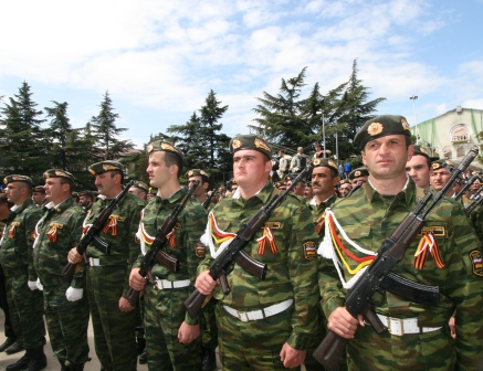 South Ossetian military parade in Tshkinvali in May, 2009